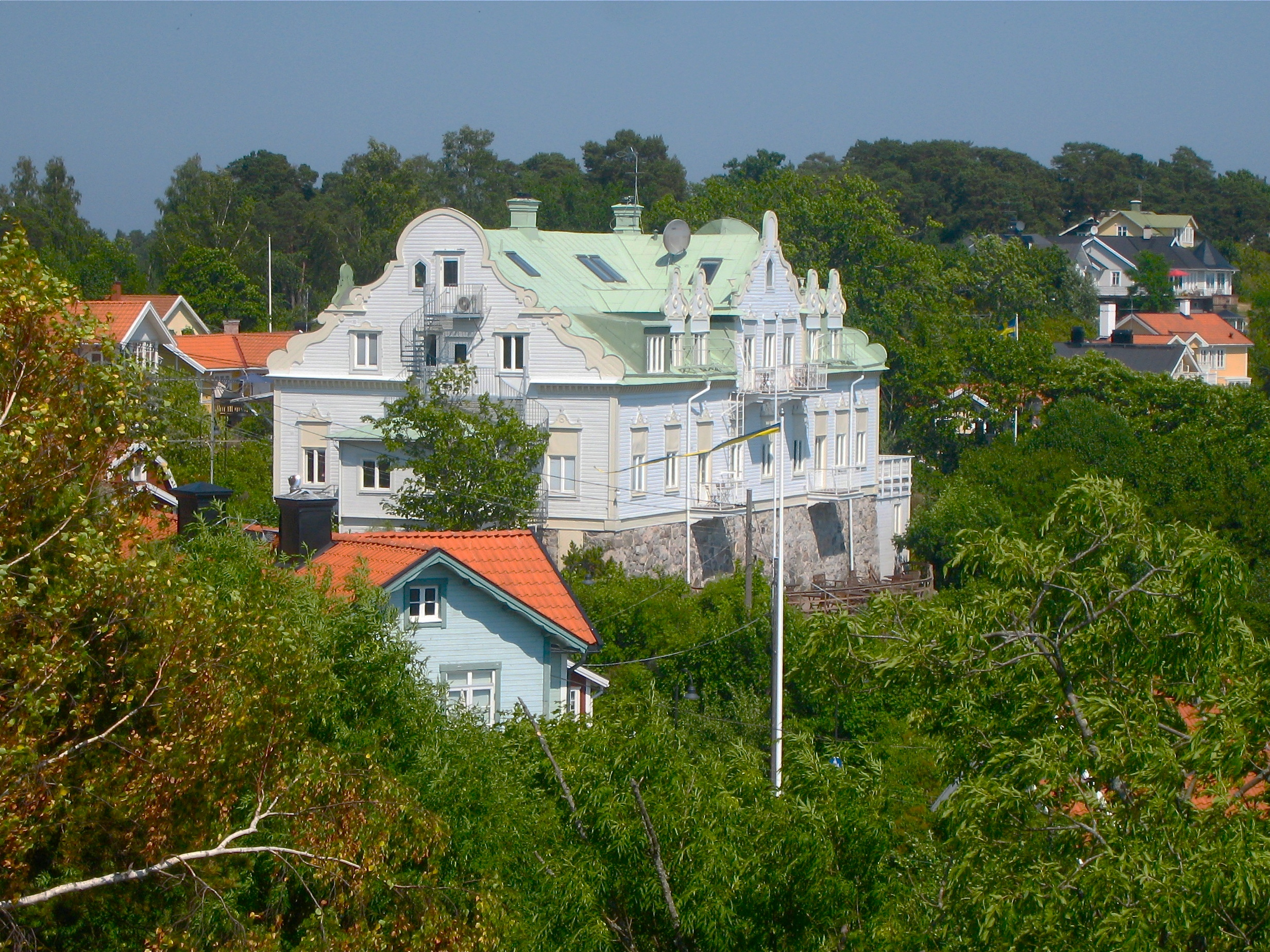 Dalarö Hotel Bellevue. Built 1884-1886 in Dutch Renaissance style. The house was originally built as a summer house for Alf Wallander.